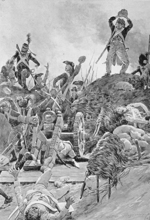 Kehl 1796, Taking one of the redoubts of Kehl by throwing rocks, 24 June 1796